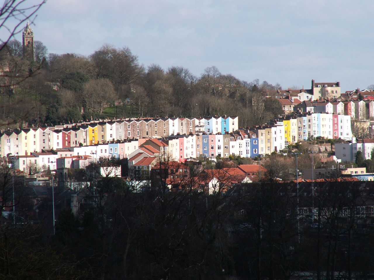 Hotwells and Brandon Hill in Bristol, as viewed from Ashton Court Estate.